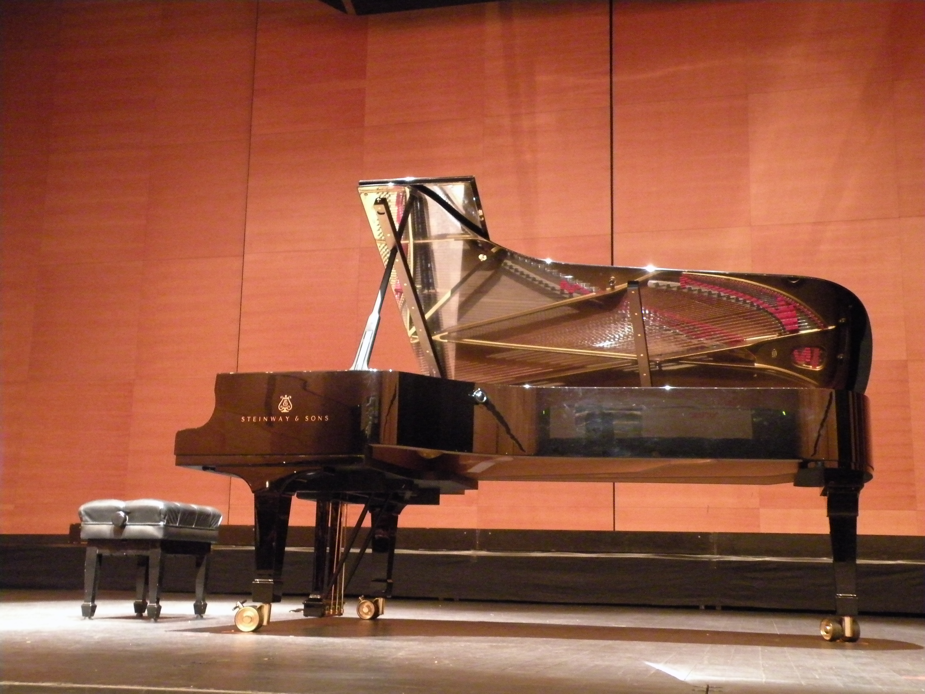 Steinway & Sons concert grand piano in high polish polyester finish, model D-274 (length: 274 cm / 107.9 in, width: 156 cm / 61.4 in, weight: approx. 480 kg / 1056 lb).